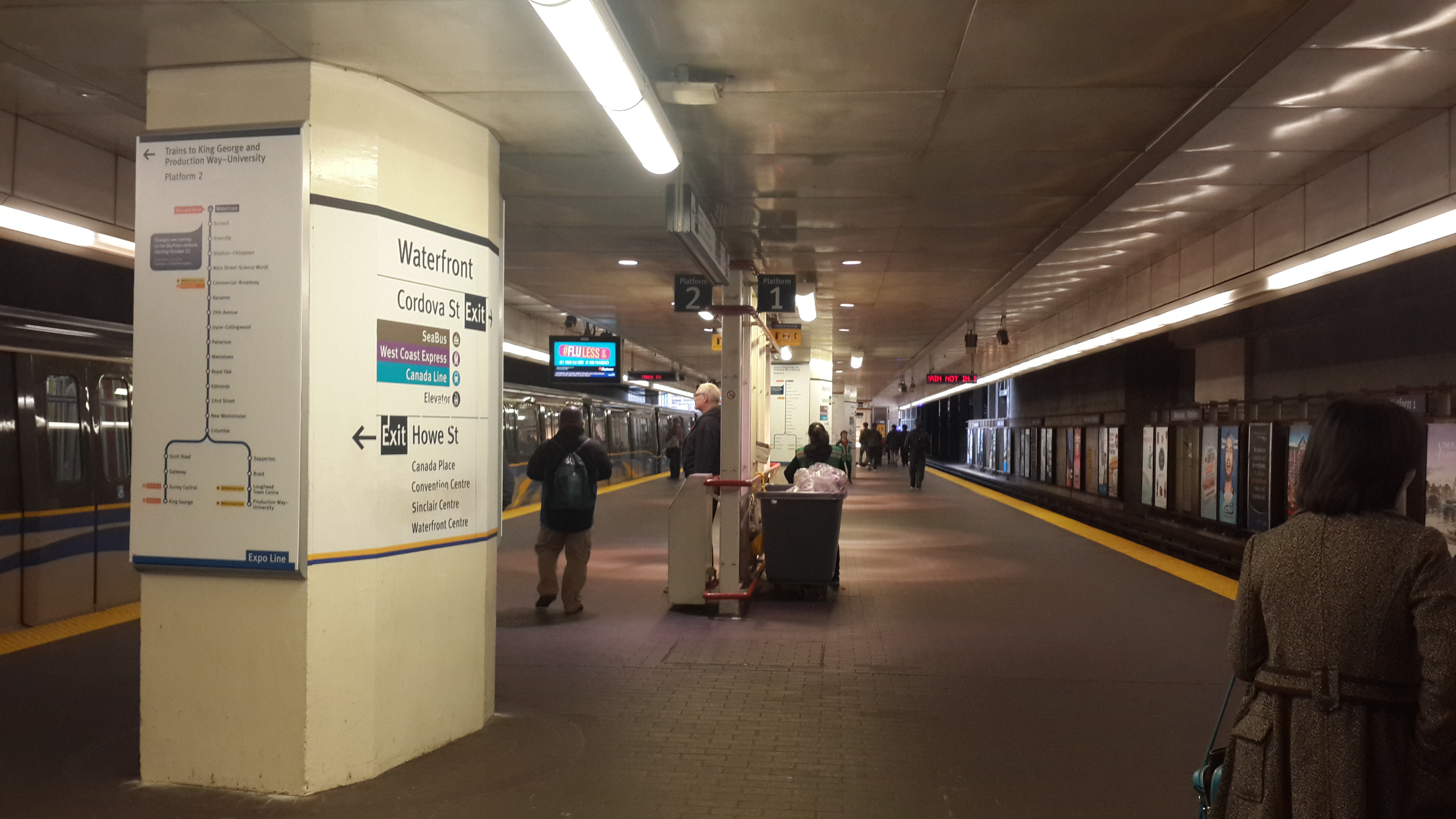 Expo Line platform of Waterfront station